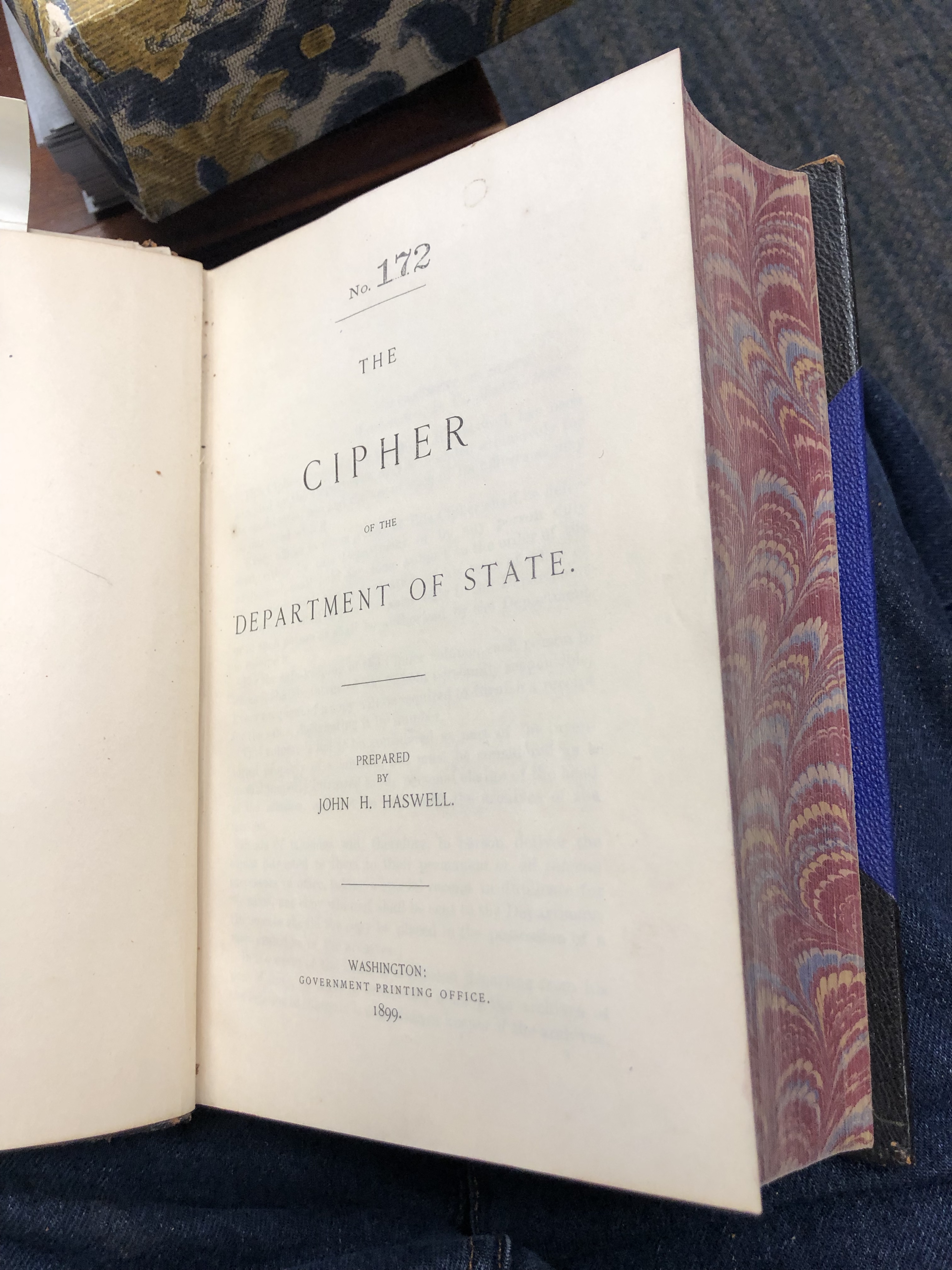 State Department 1899 code book in the library of the National Cryptologic Museum in Maryland